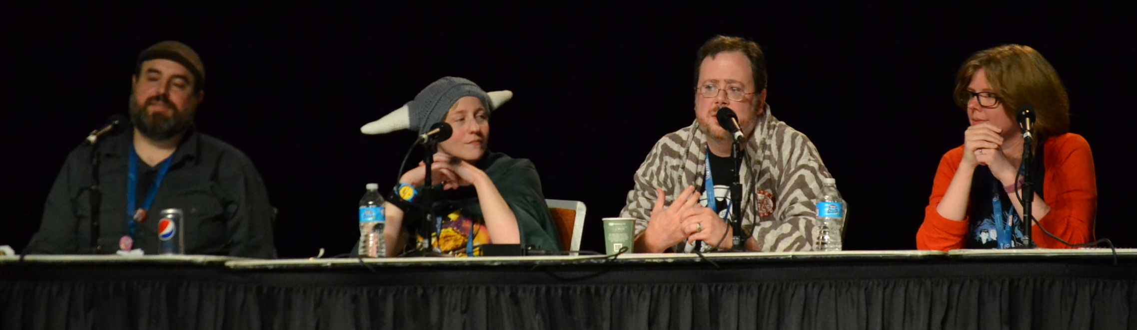 Artists Tony Fleecs, Heather Breckle, Andy Price, and Katie Cook (of the IDW Publishing "My Little Pony: Friendship Is Magic" comics) at the 2014 BronyCon convention, August 1-3, 2014.